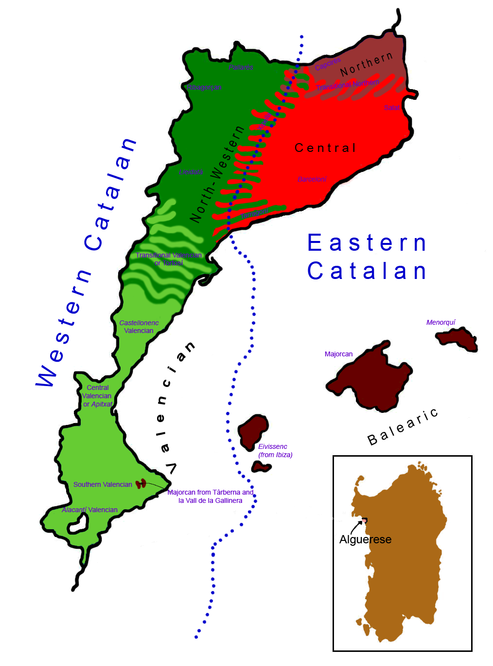 Dialectal Map of Catalan Language.